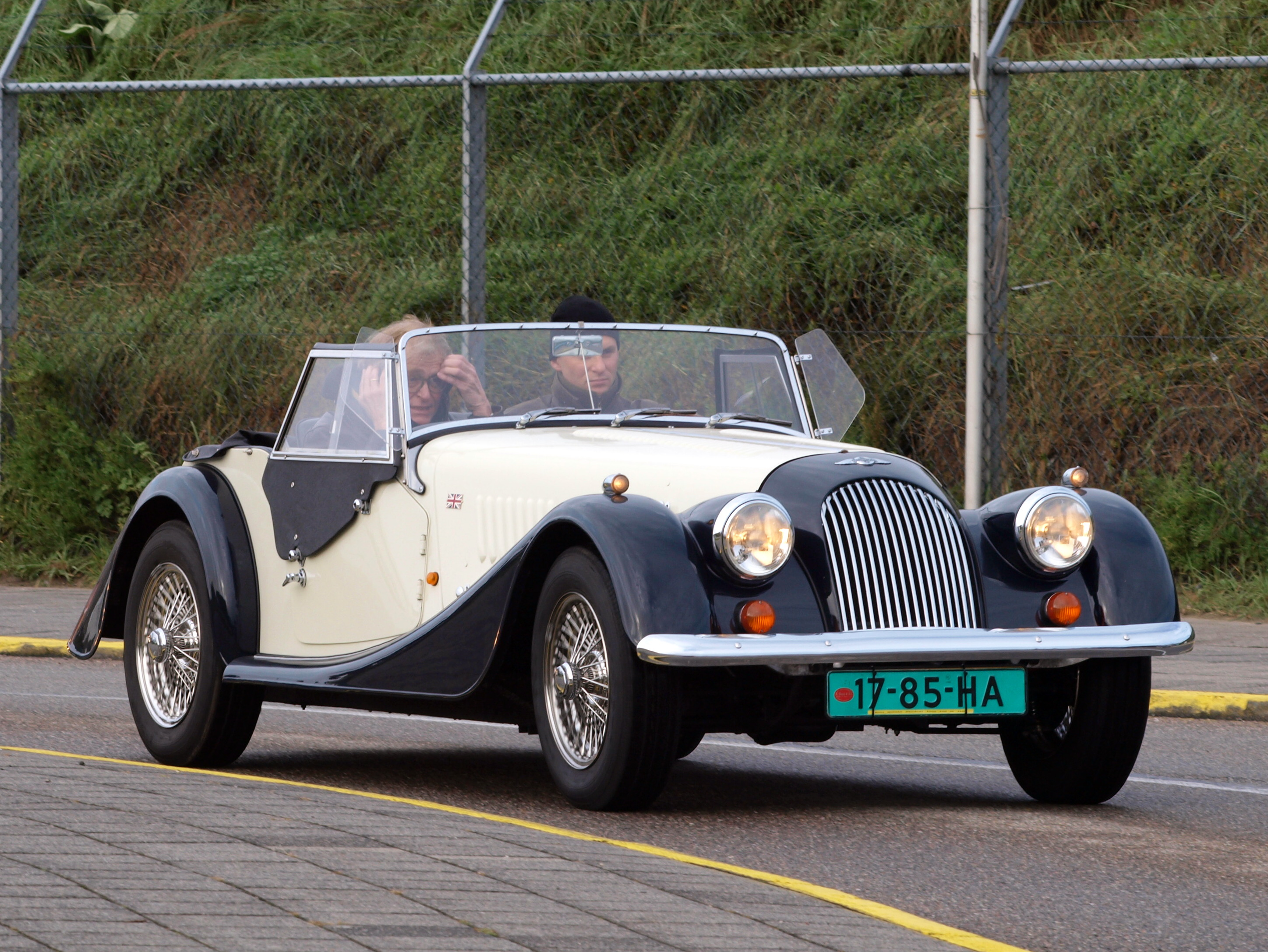 Photographed at the Nationaal Oldtimer Festival Zandvoort 2010, The Netherlands.